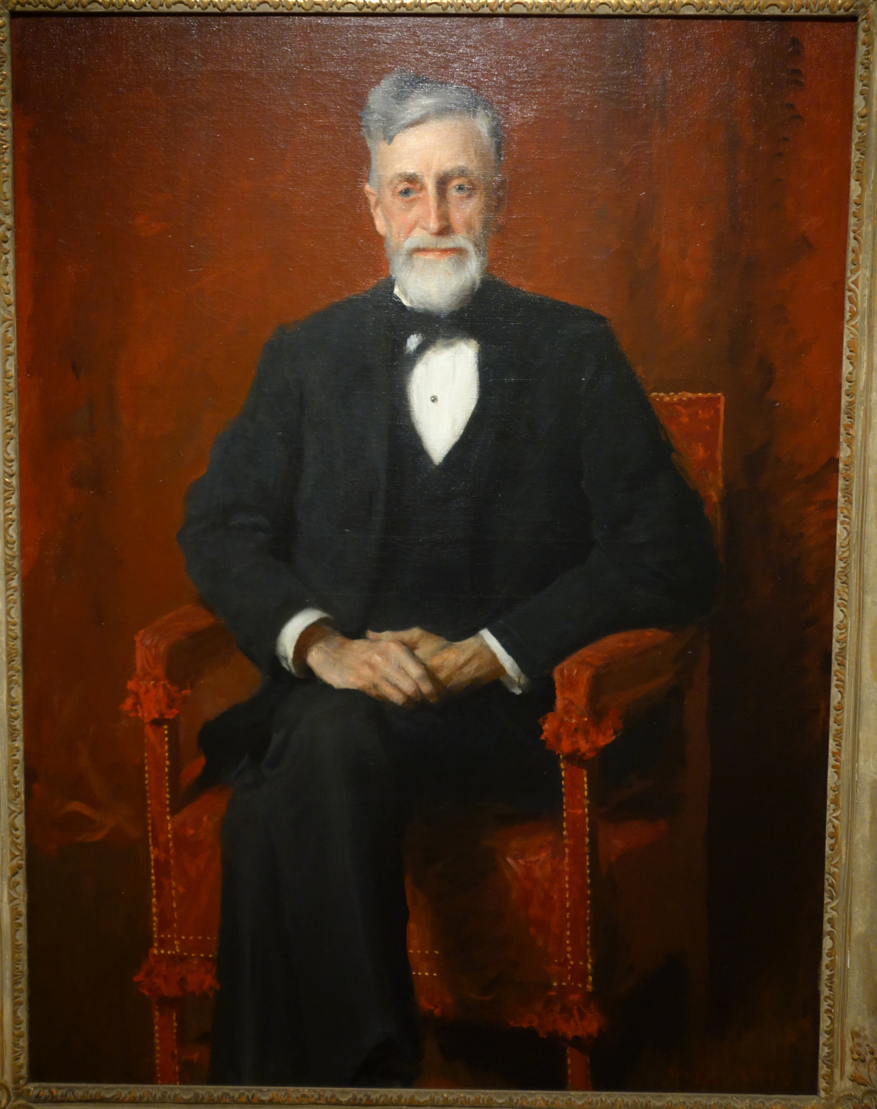 Exhibit in the New Britain Museum of American Art, New Britain, Connecticut, USA. This artwork is in the public domain because the artist died more than 70 years ago. The museum permitted photographs of this exhibit without restriction.